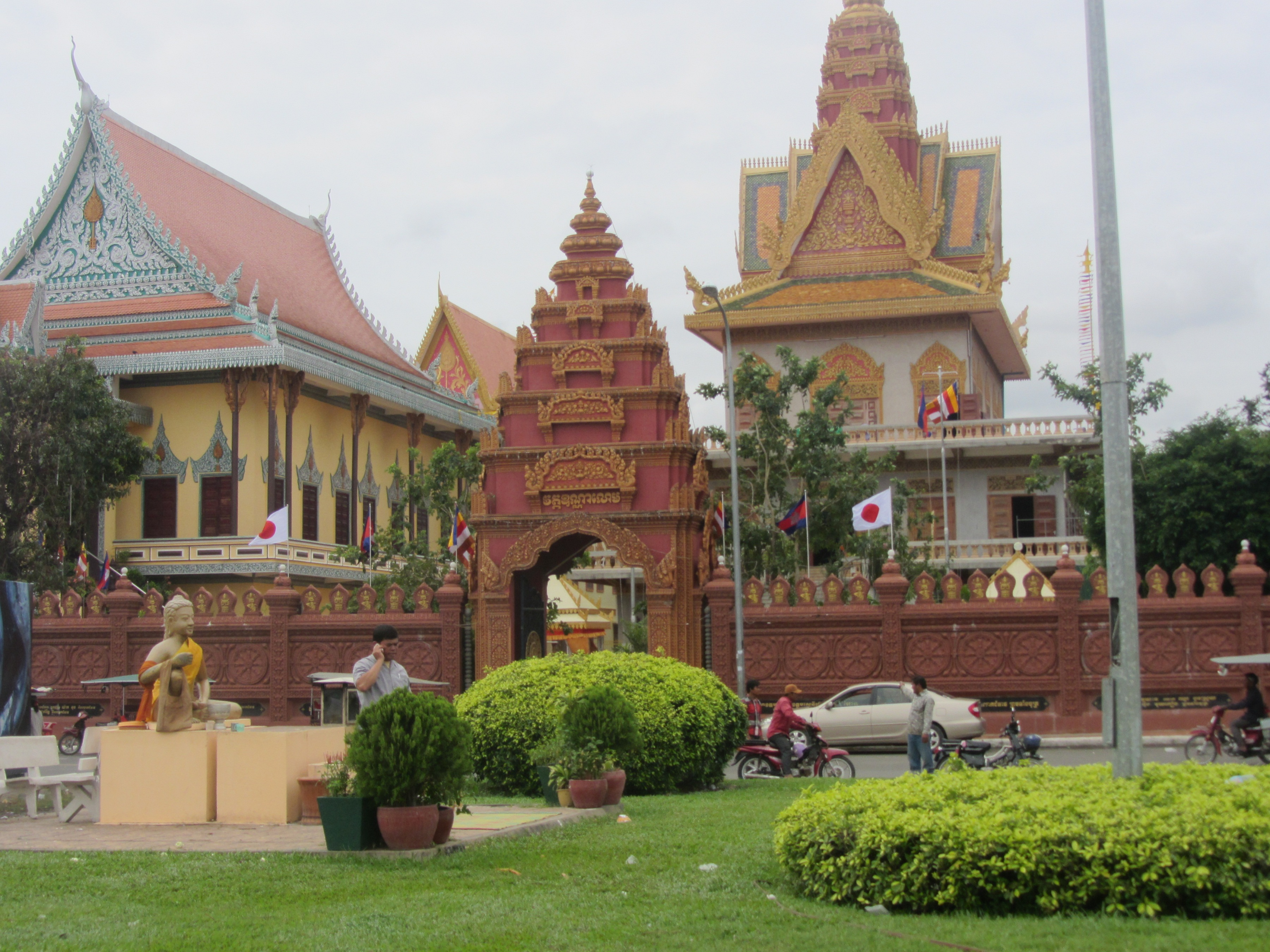 Wat Ounalom ភាសាខ្មែរ: វត្ត​ឧណ្ណាលោម